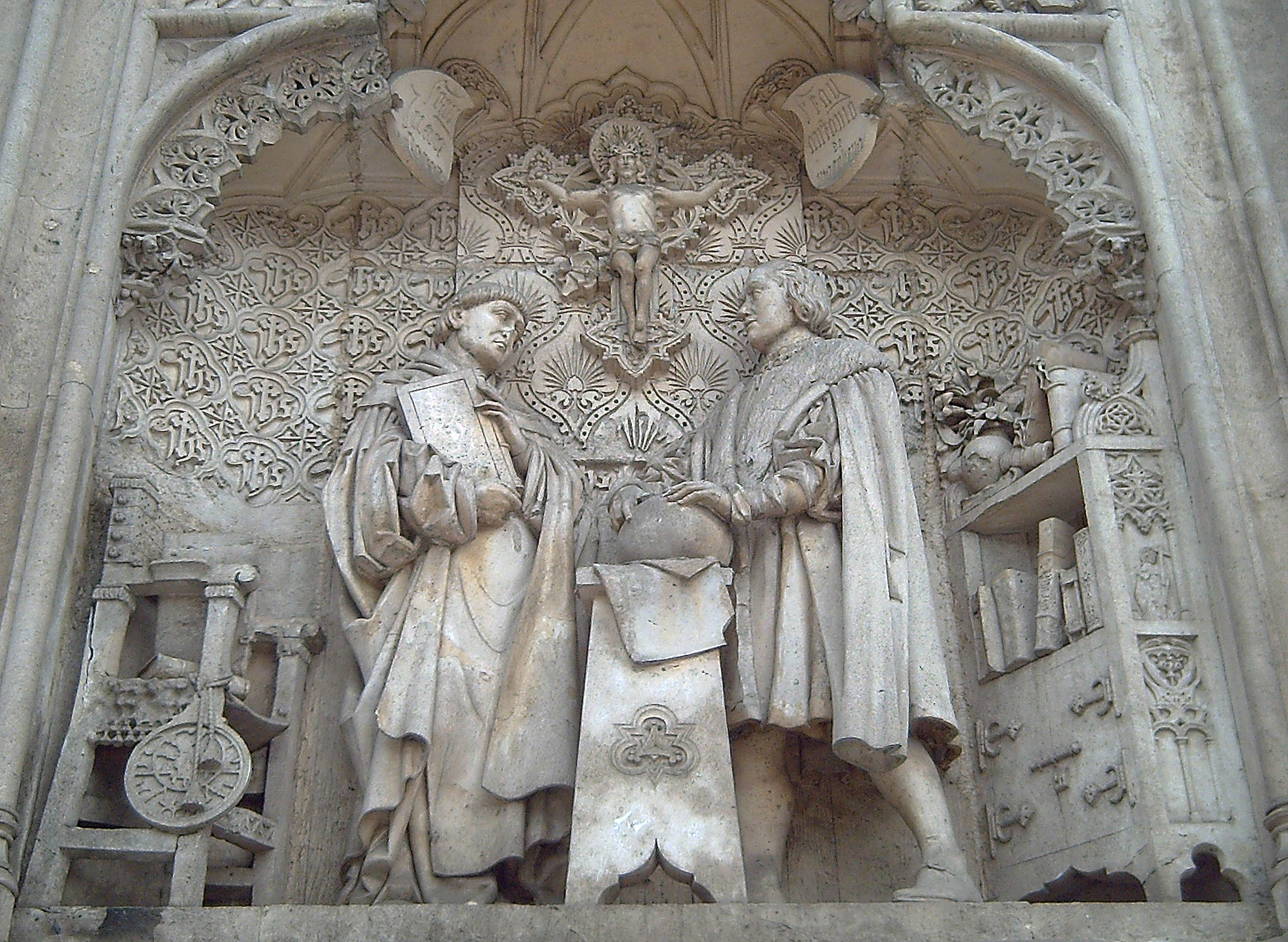 Christopher Colombus (right) expounding his projects to Diego Deza (left). Detail of the monument to Colombus at the Plaza de Colón ("Columbus Square") in Madrid (Spain), built between 1881 and 1885.